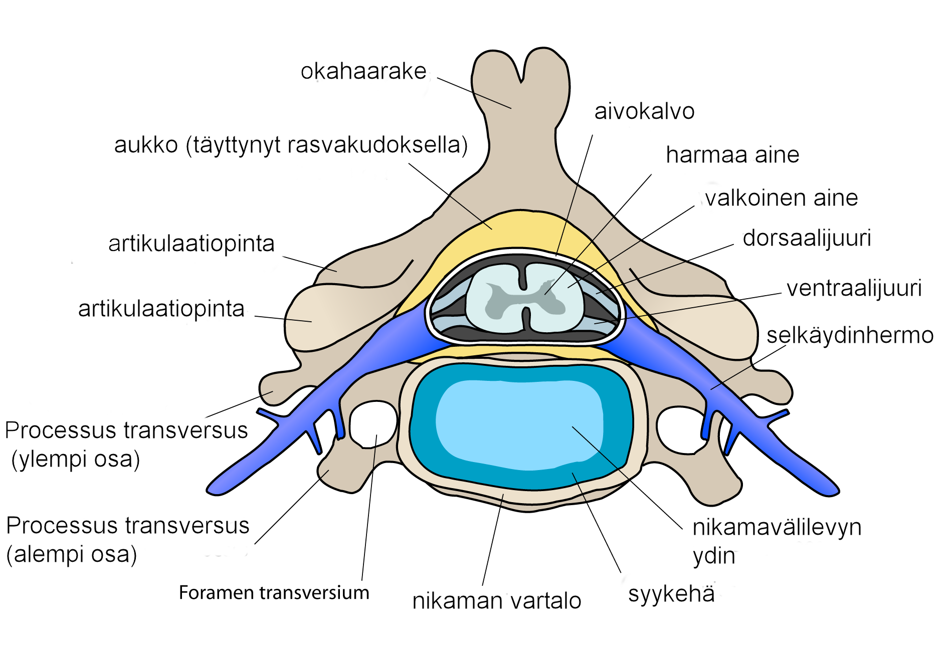 unannotated diagram of cervical vertebrae Finnish version.